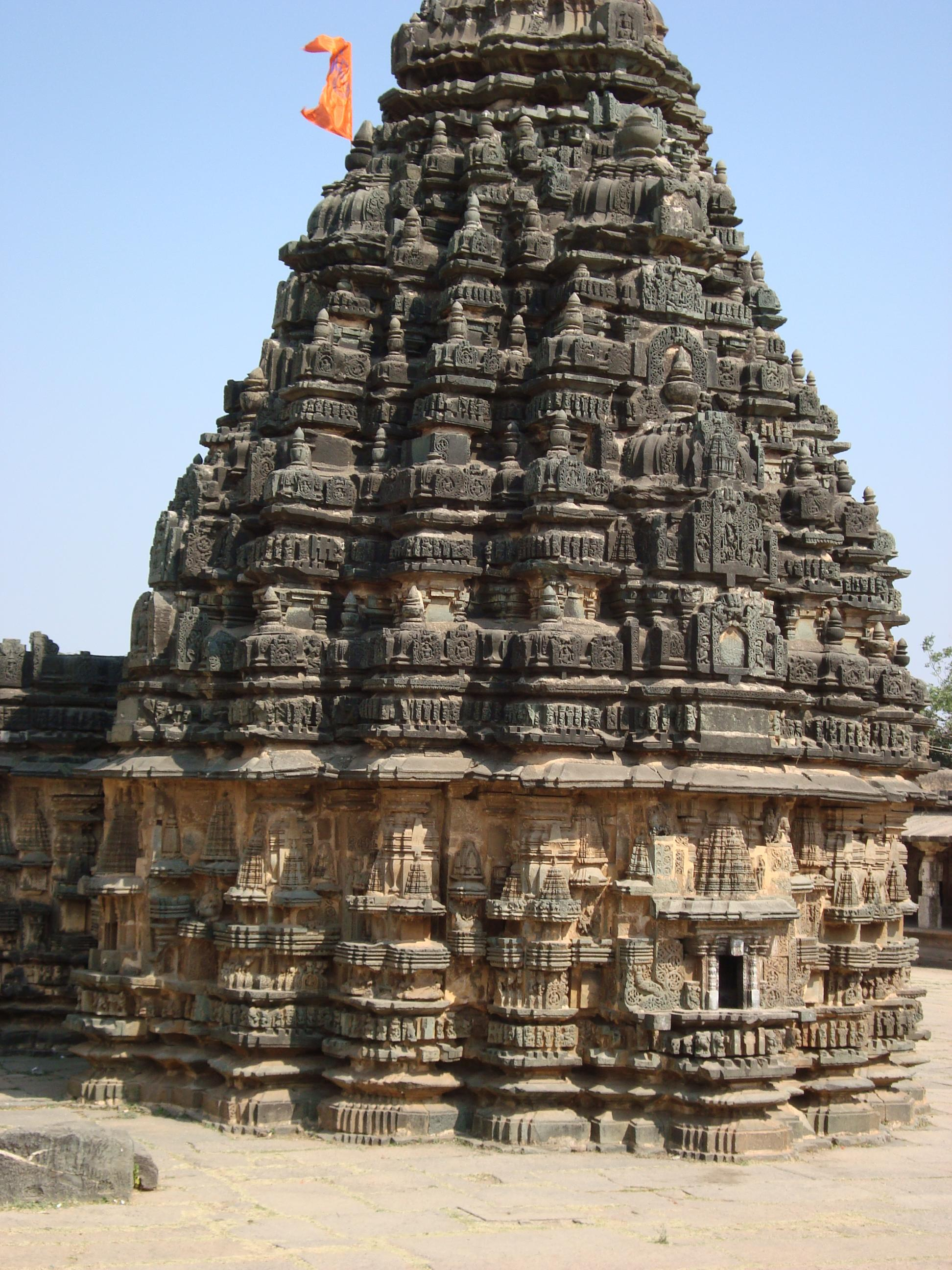 Lakshmeshwara Someshwara temple Author and source : Manjunath Doddamani, Gajendragad/Hubli, Karnataka(North), India.